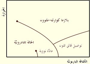 Qualative picture of the QCD (quantum chromodynamics) phase diagram. See for example: Rüster, Stefan B. (2005). "Phase diagram of neutral quark matter: Self-consistent treatment of quark masses". Physical Review D 72: 034004.